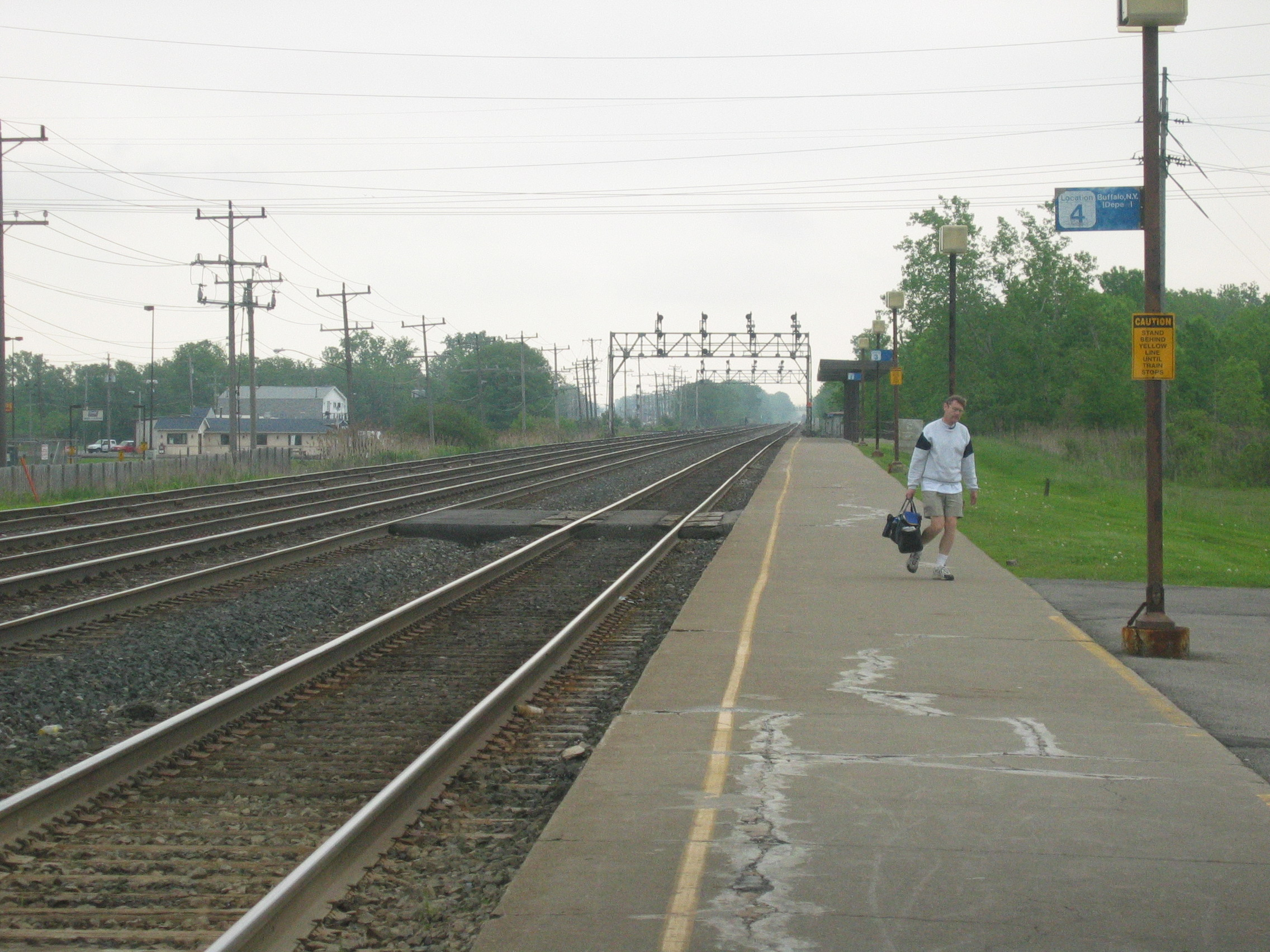 Platform at Buffalo-Depew station in May 2004